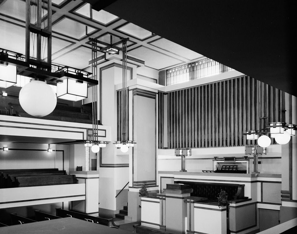 Unity Temple, 875 Lake Street, Oak Park, Cook County, IL.